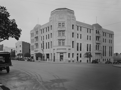 A photograph of the Adelphi Hotel, Perth, taken on the 3rd of July, 1936 and designed by Margaret Pitt Morison